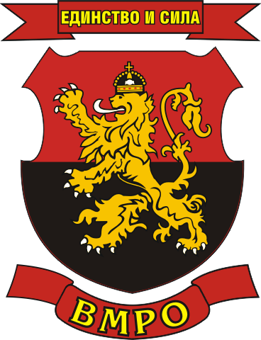 Герб на ВМРО-БНД